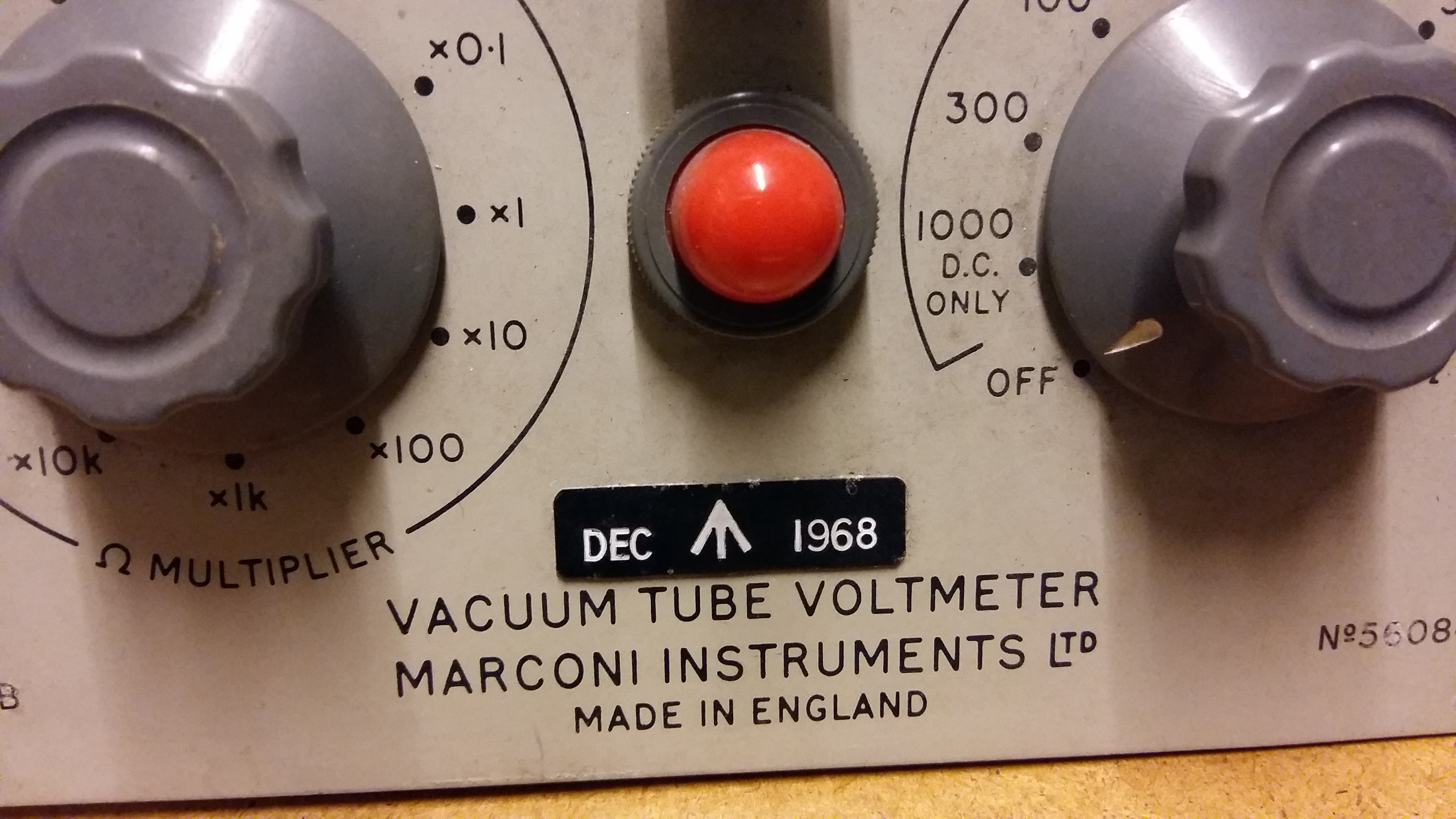 The UK Ministry of Defense broadarrow mark on a Marconi TF1041B valve voltmeter, indicating MoD ownership.